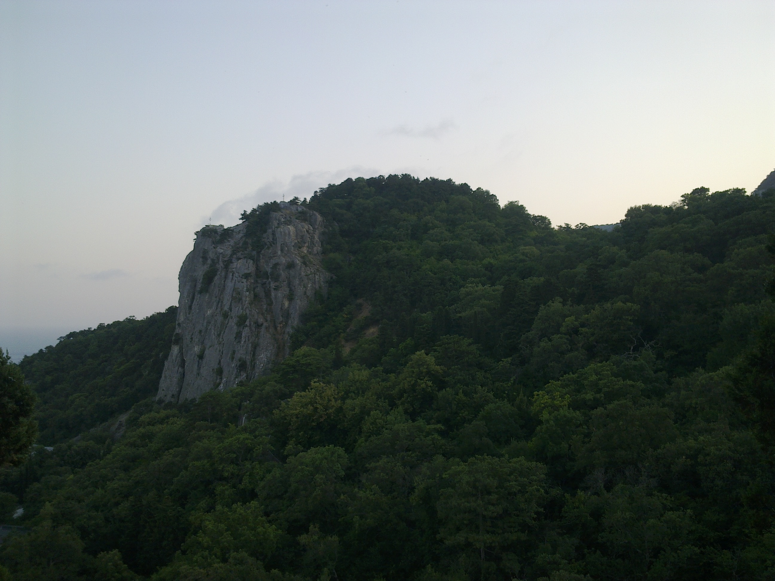 Khrestova mountain in Oreanda, Crimea